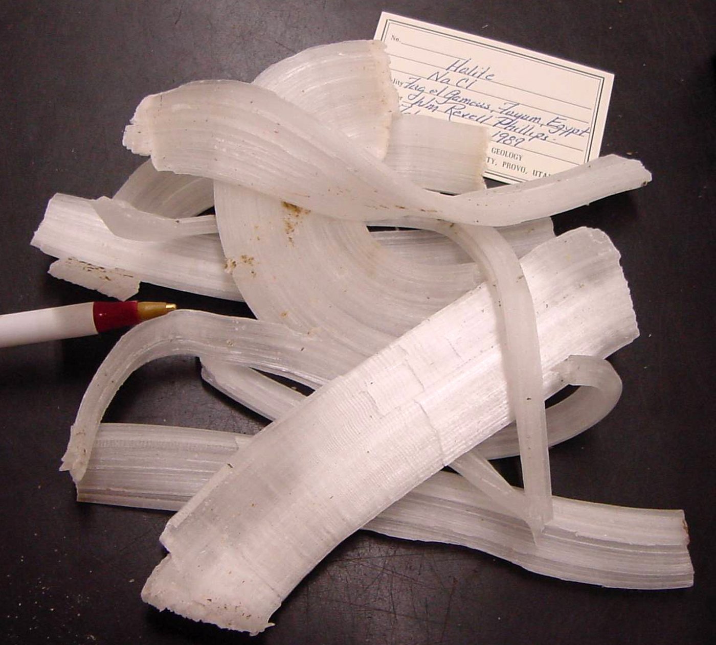 Halite from Fayum, Egypt. Collected 1989 by Wm. Revell Phillips Mineral collection of Brigham Young University Department of Geology, Provo, Utah. Photograph by Andrew Silver. No BYU index, NaCl.